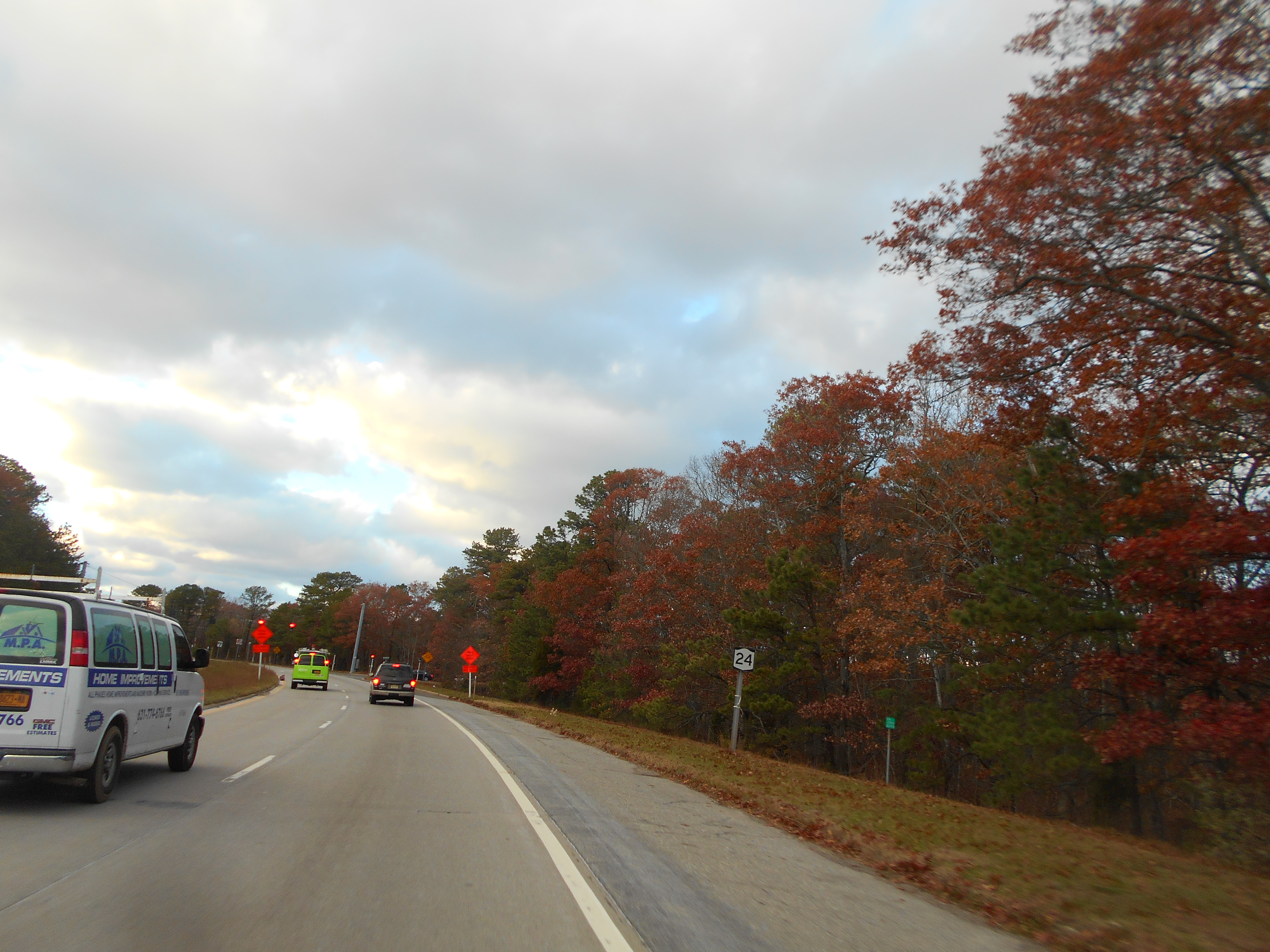 New York State Route 24 westbound in Hampton Bays, New York.